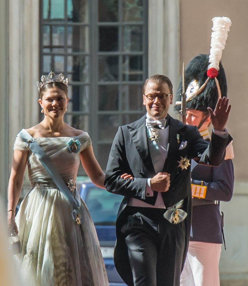 Victoria, Crown Princess of Sweden and prince Daniel on their way to the castle church and the wedding ceremony of Prince Carl Philip and Sofia Hellqvist, June 13th, 2015.